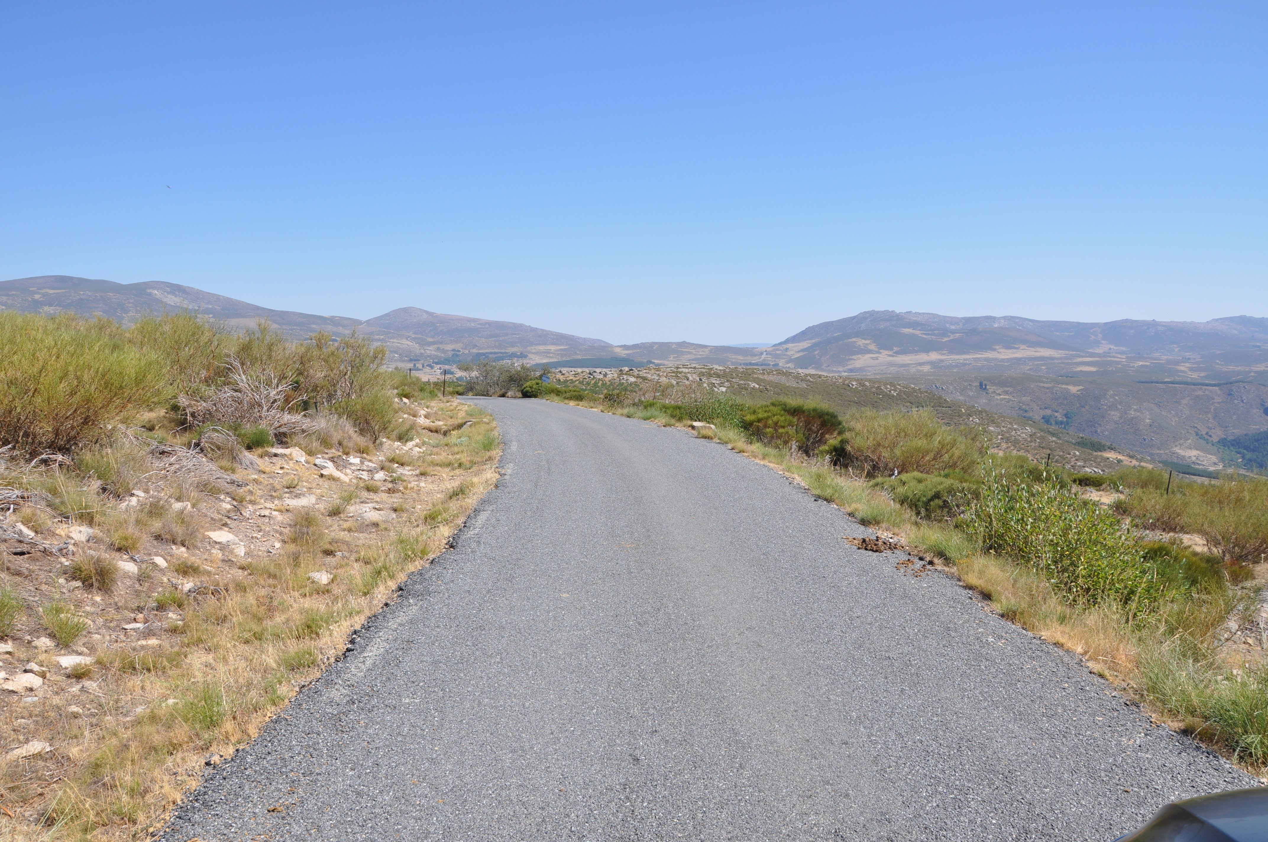 Mountain pass of Menga and the Serrota from the road of Navalsauz, AV, Spain